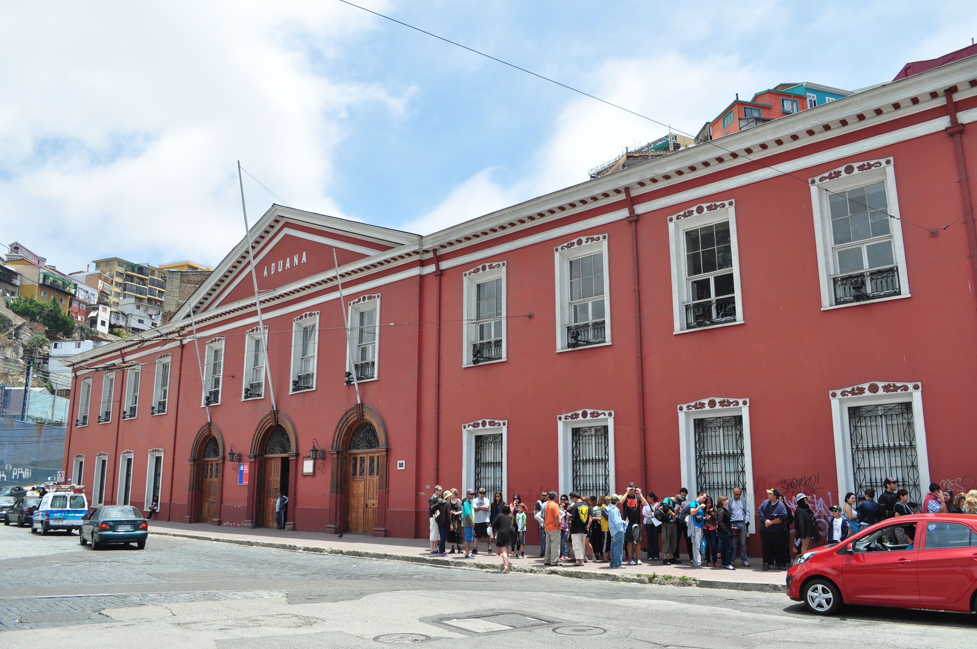 This is a photo of a national monument in Chile: 761